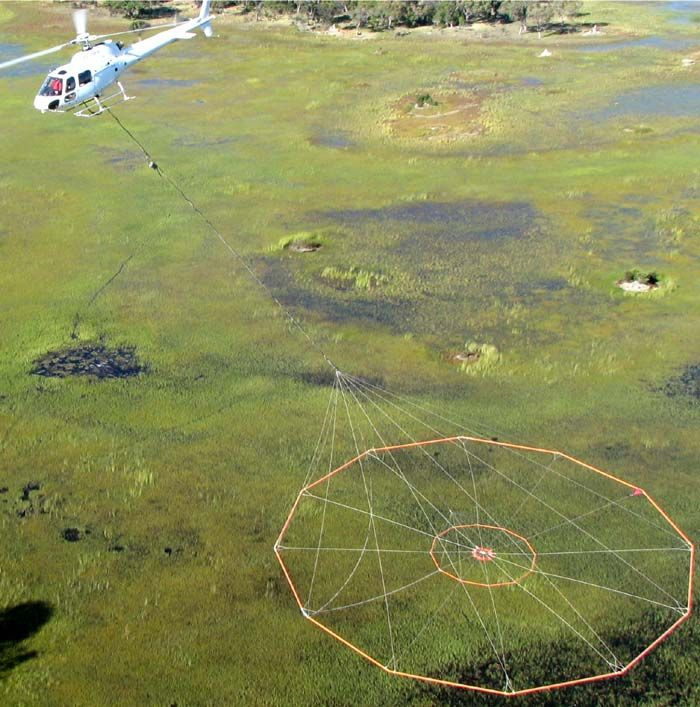 An Eurocopter AS 350 conducts a Time Domain Electromagnetic (TDEM) Survey for the U.S. Geologic Survey